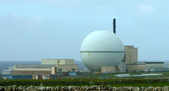 Dounreay Nuclear Reactor Dome. Dounreay is the main employer for the area.